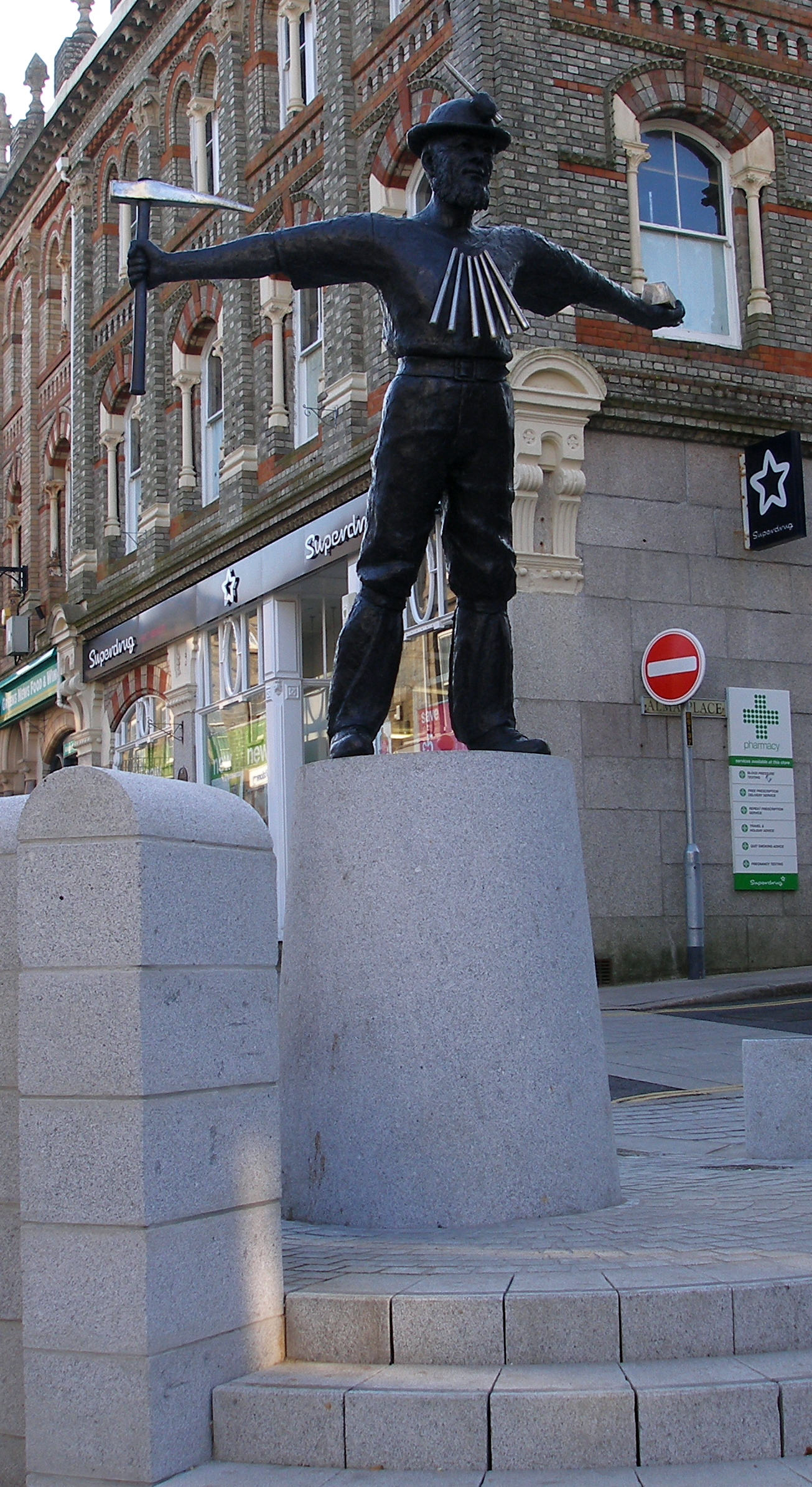 The Tin Miner statue in Redruth, England.